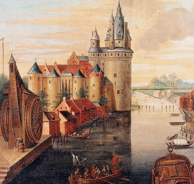 The Bourgondic castle in Kortrijk